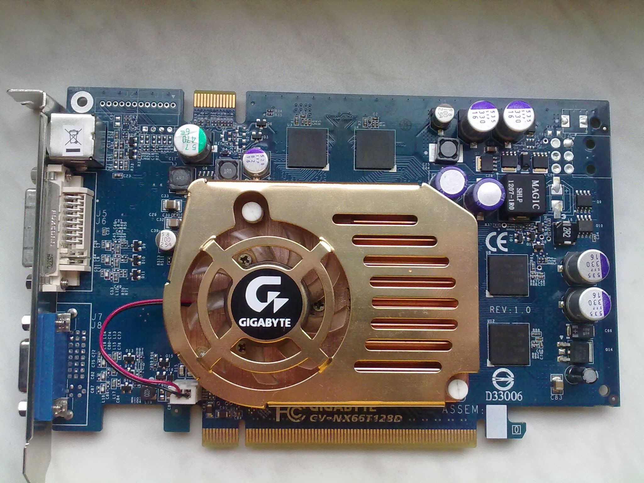 Nvidia GeForce 6600GT video card: Gigabyte GV-NX66T128D Rev. 1.0